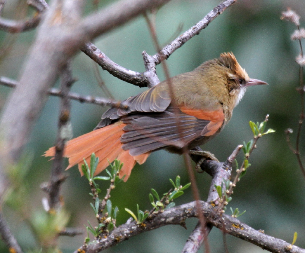 Northeast of Cusco - Peru